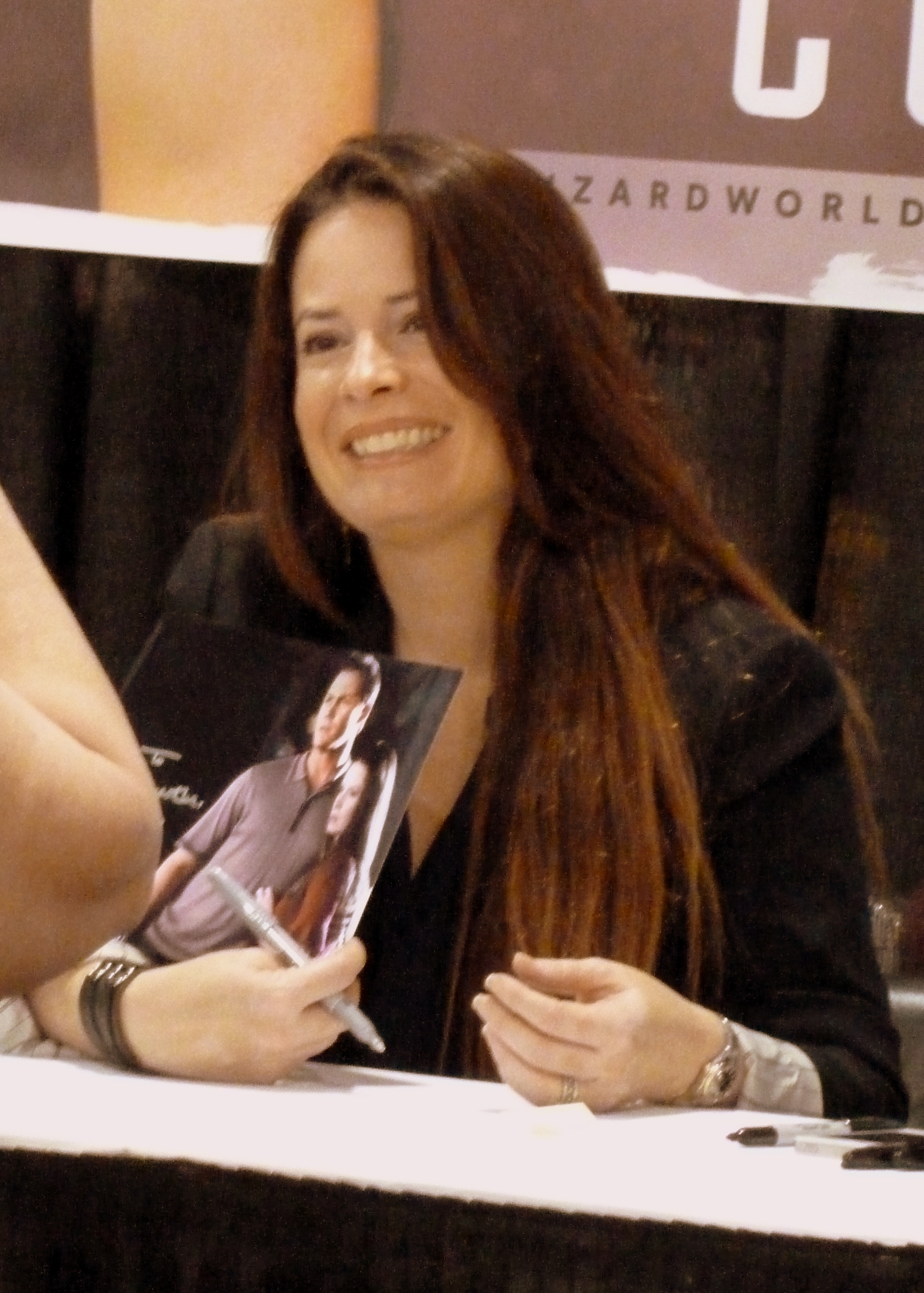 Wizard World Philadelphia 2013